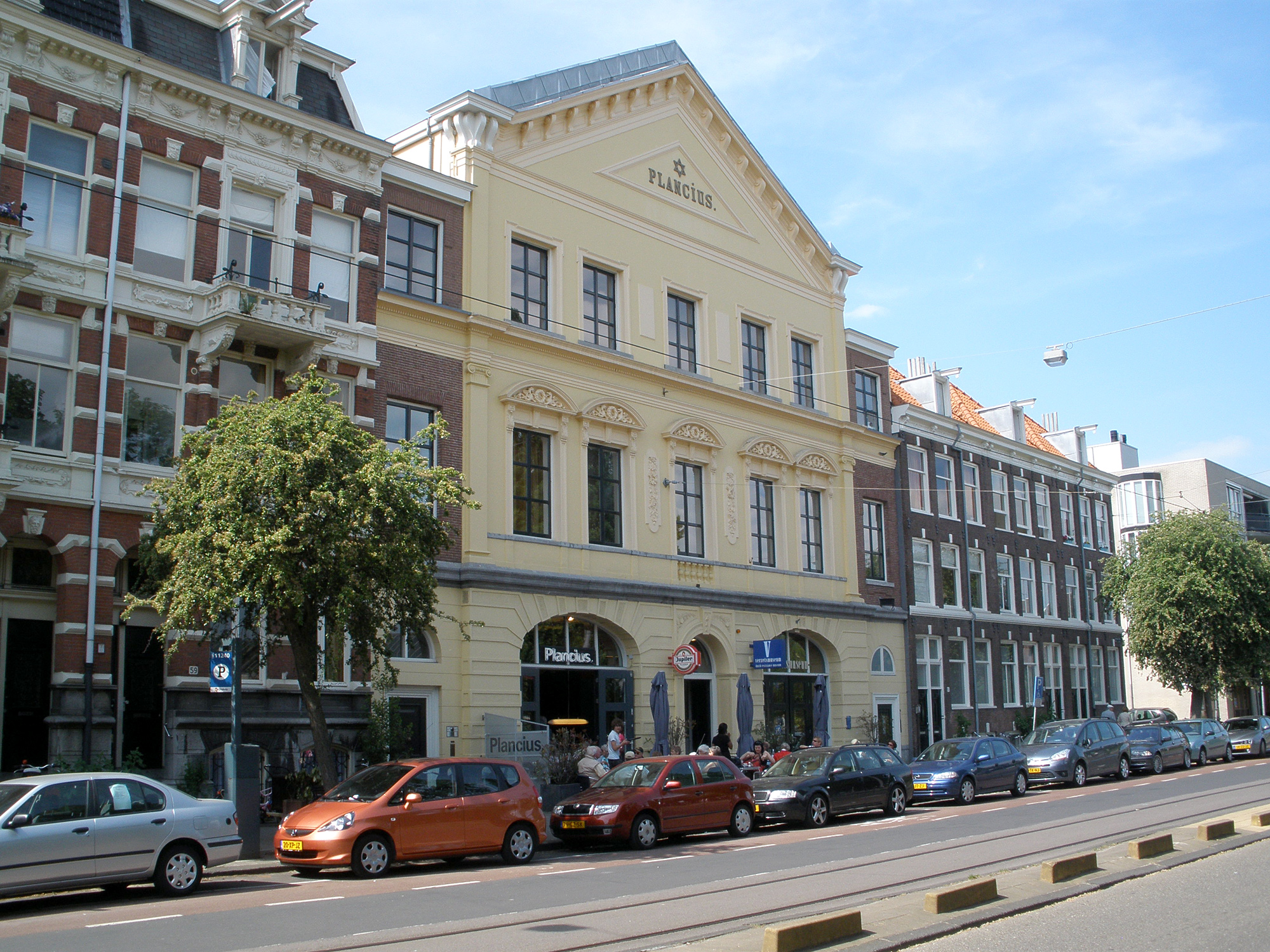 The Plancius building (1876), across from the main entrance to Artis zoo on Plantage Kerklaan in Amsterdam. This building, originally a choir hall and theatre for the Jewish community, now houses the Verzetsmuseum, dedicated to the Dutch resistance movement during World War II. In 2001 the building received rijksmonument (national monument) status. Note the Star of David on the facade.